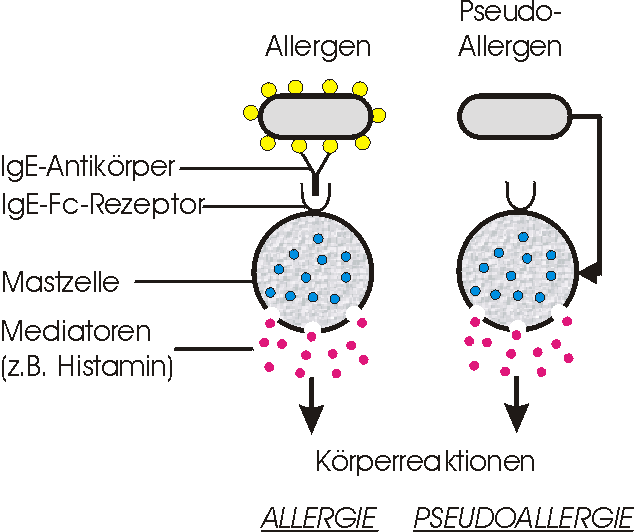 Type I hypersensitivity vs Pseudoallergy